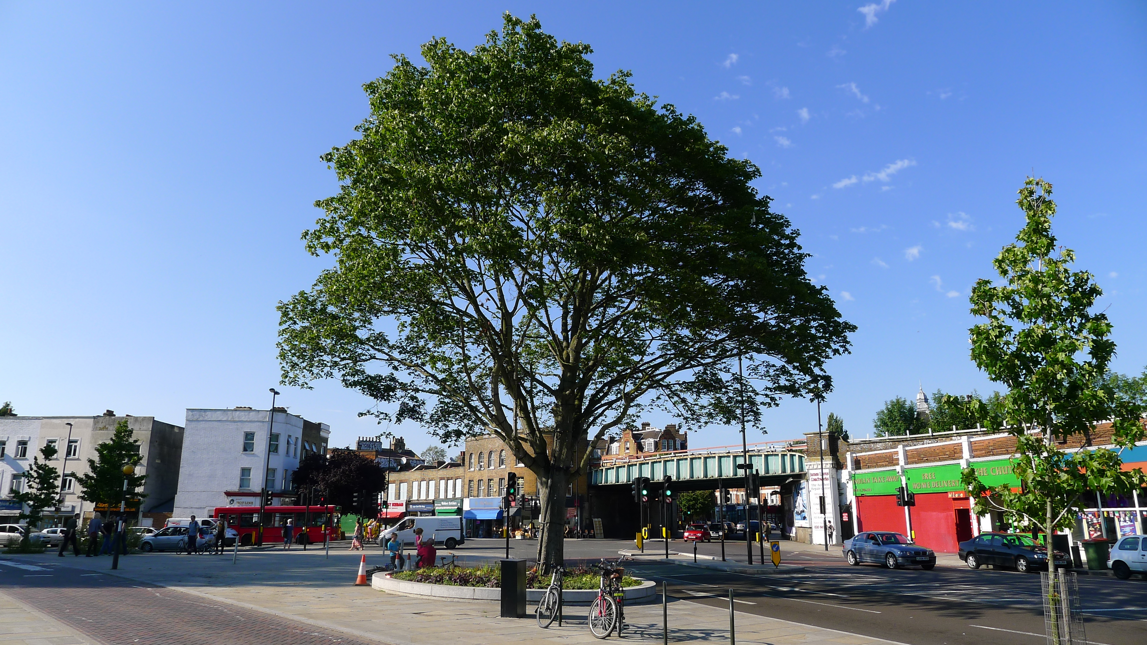 Six roads meet at Herne Hill Junction, the area’s main thoroughfare. The vehicles to the left are on Dulwich Road; behind the white van is the pedestrianised southern end of Railton Road; under the railway bridge, the junction between Milkwood Road, Herne Hill (both to the left) and Half Moon Lane (to the right) is visible; and the vehicles to the right are travelling south on Norwood Road. The route along Herne Hill, under the railway bridge (part of Half Moon Lane) and Norwood Road is part of the A215 road. The pedestrian crossing on the extreme left of this image leads from the traffic island (referred to in planning documents as Island Green, which was the name of this area when it was surrounded by two tributaries of the Effra pre-1820) into Brockwell Park. The traffic island and park entrance were redesigned from 2008-10 to ease congestion and make the crossing safer for pedestrians.